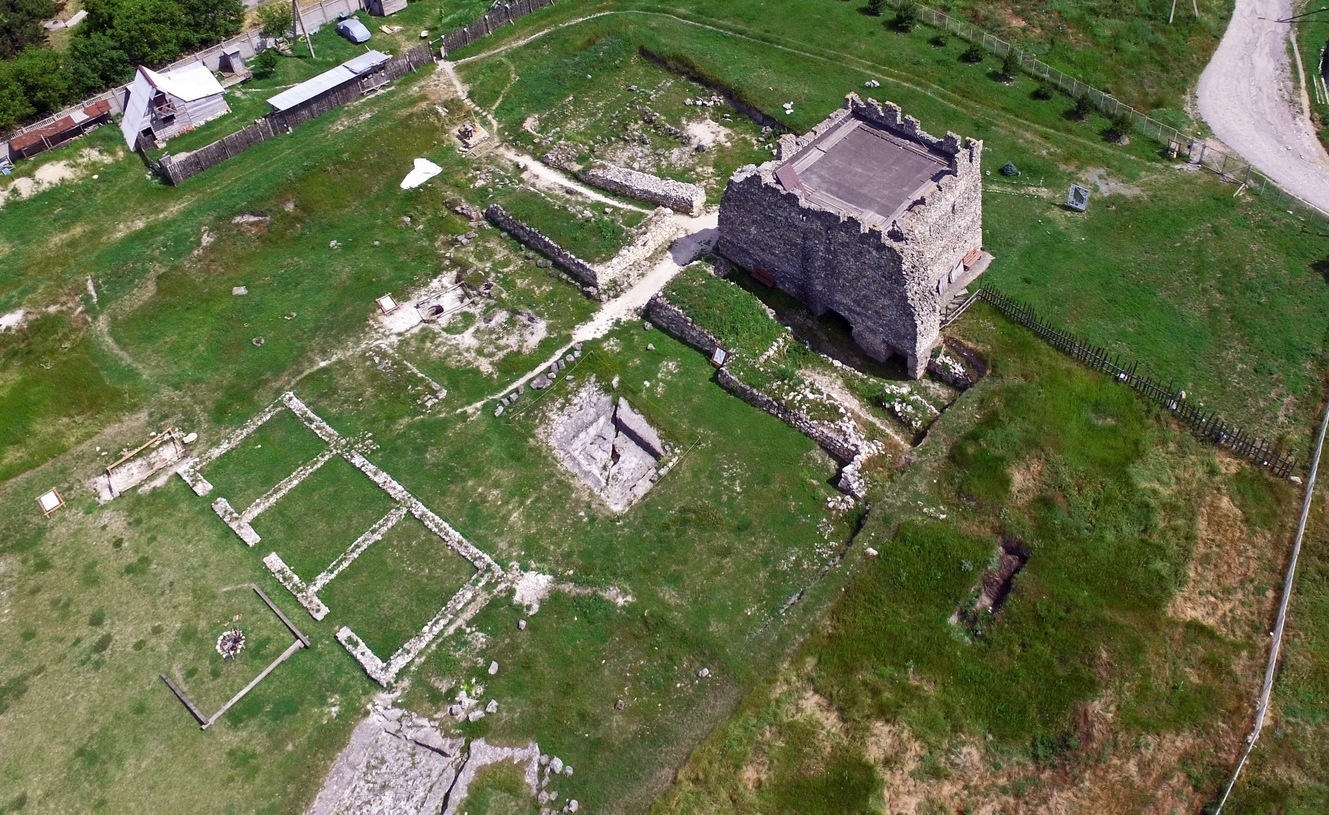 Simferopol, Scythian Neapolis